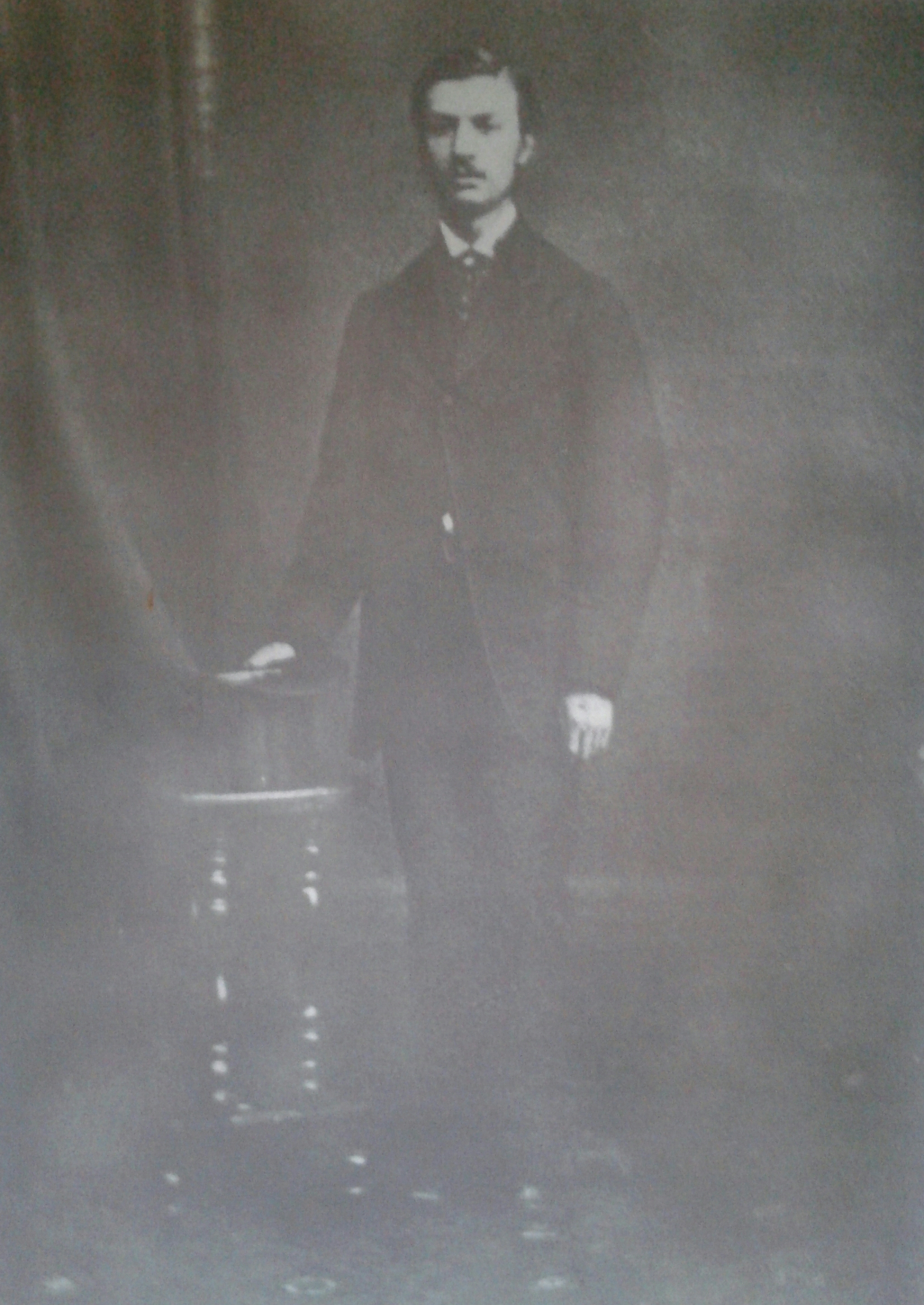 Ivan Evstratiev Geshov